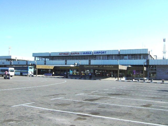 Varna Airport (VAR) Terminal 1